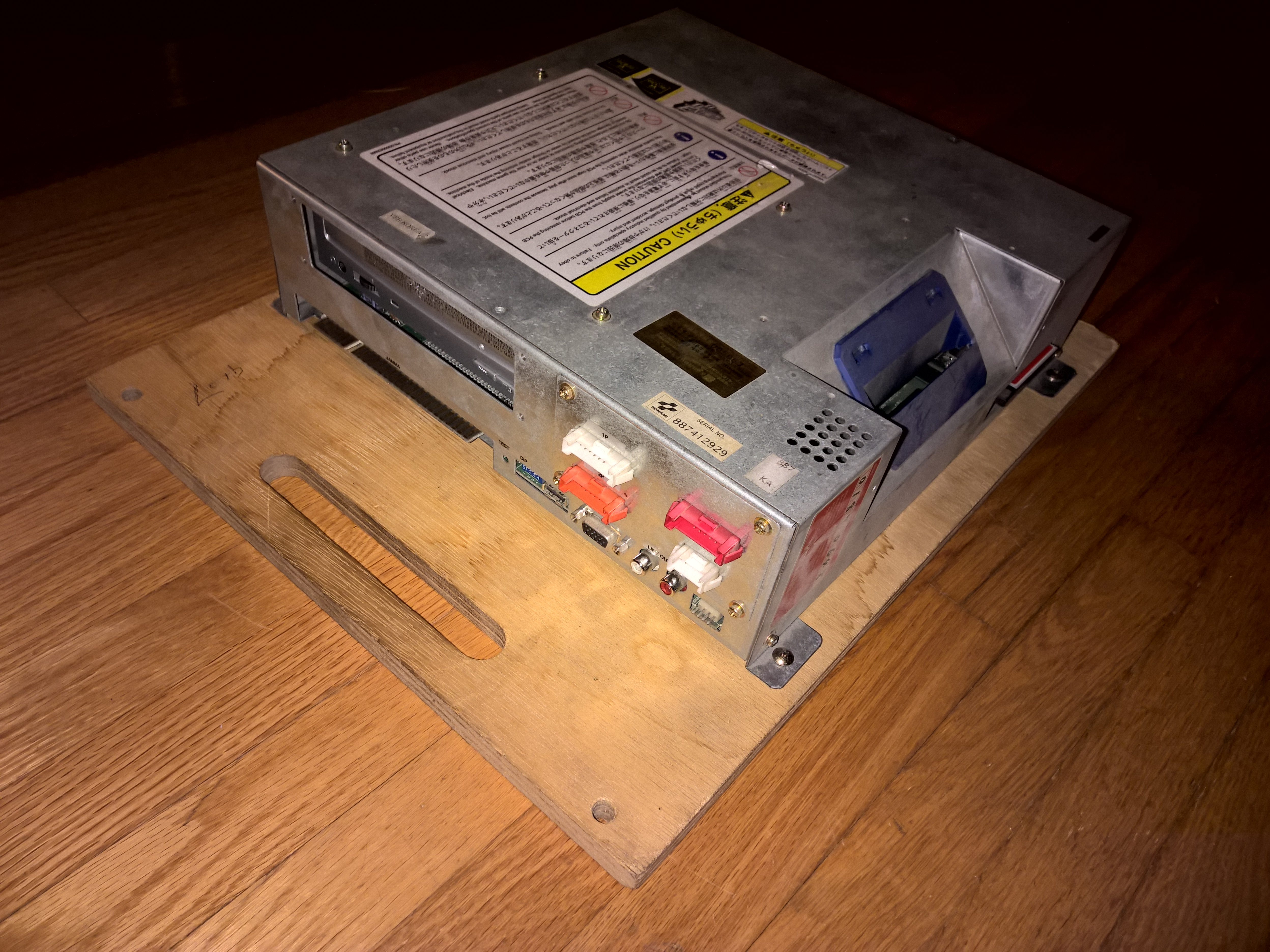 The System 573 PCB pulled from a DDR 3rdMix (upgraded to Extreme) machine.